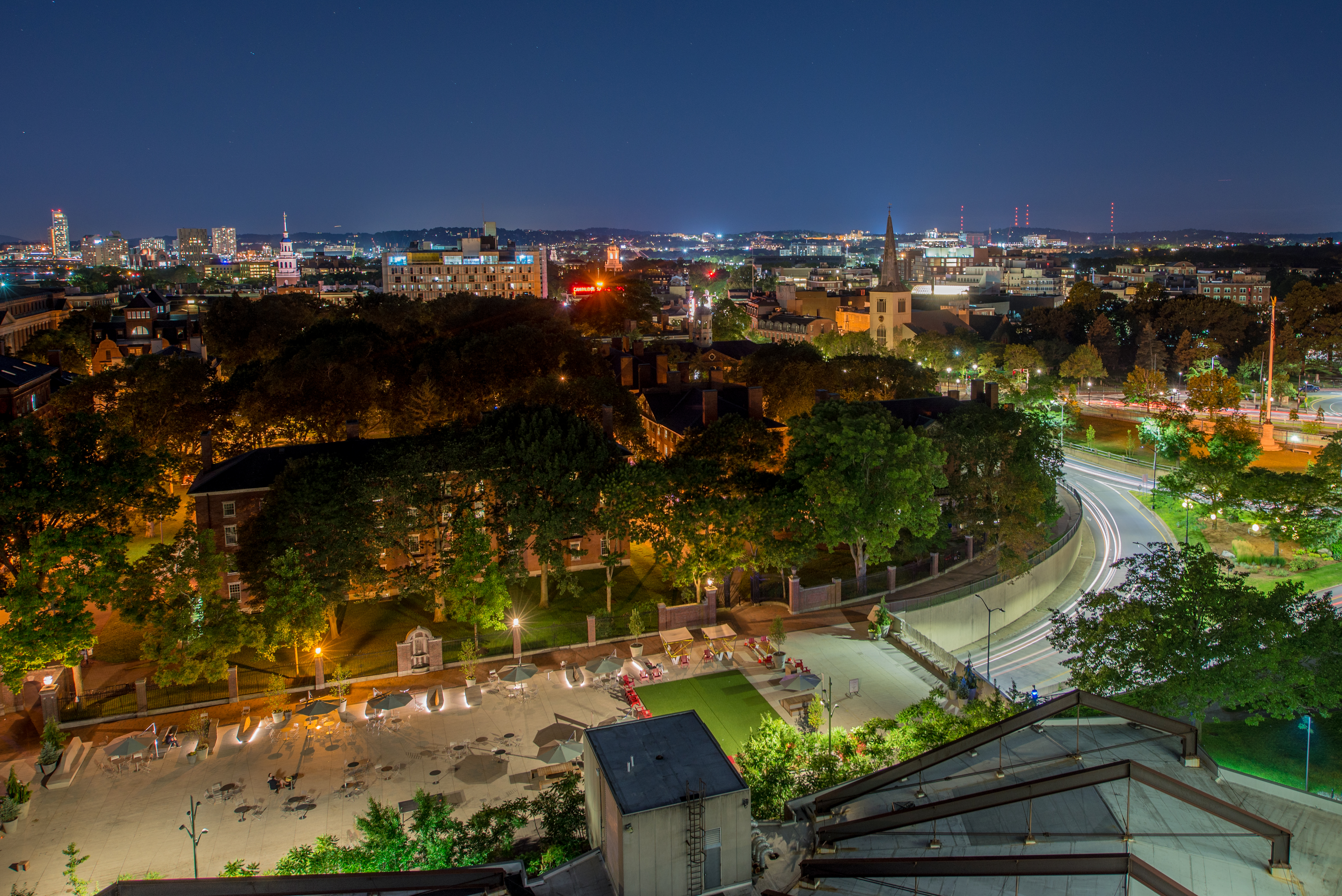 Harvard Yard, the Plaza and Massachusetts Avenue at night, seen from the top floor of the Science Center.